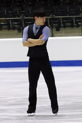 Jin Seo KIM KOR – 9th Place